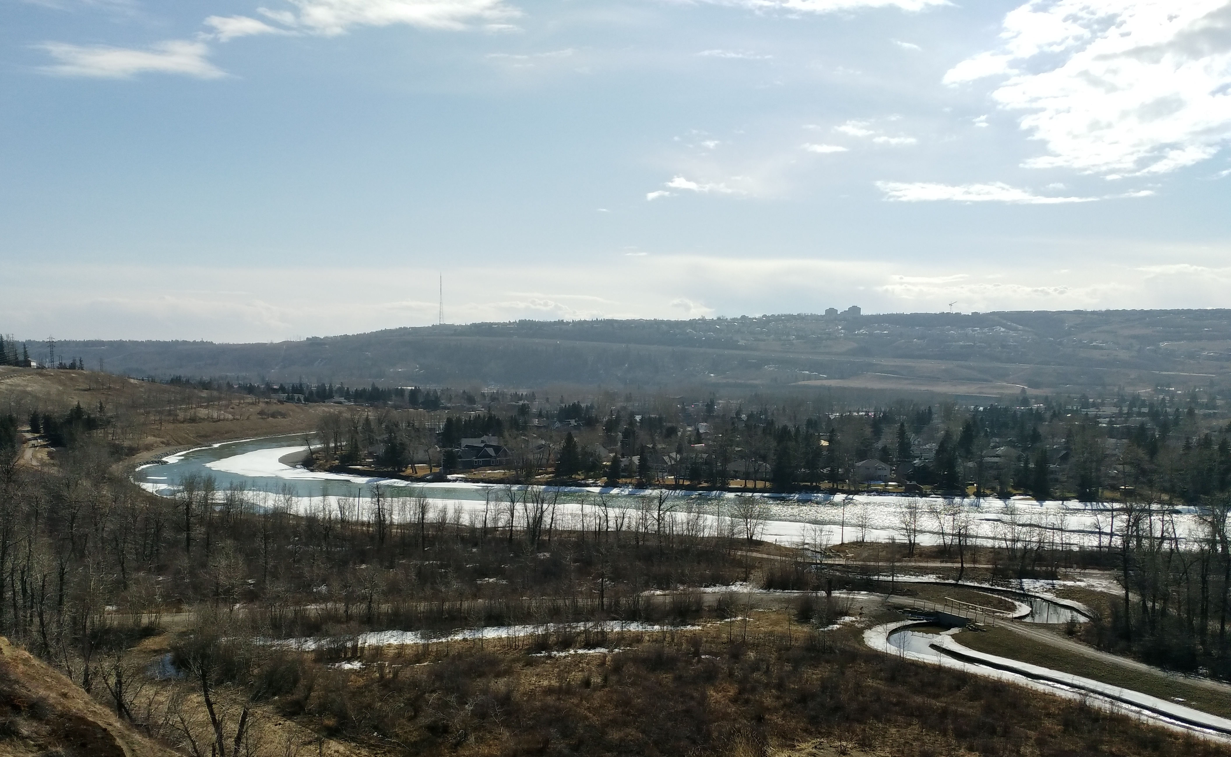 The area which once was a gravel pit was transformed in a process that combined water engineering, public art, landscape architecture and ecological design. Stormwater makes its way to the Bow River. The system includes a Nautilus Pond, a polishing marsh, a wet meadow, a stream, outfall, a dry stream, riparian areas, and a lookout mound.